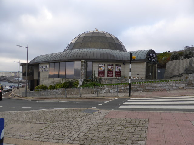 Rhodes at the Dome, Plymouth, Devon